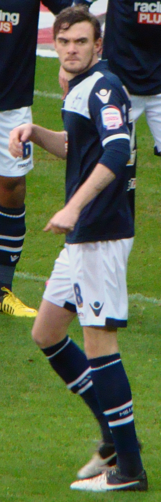 29/12/12 Cardiff v Millwall, Championship, Cardiff City Stadium, Cardiff, Wales